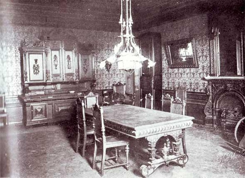 Dining room, seen in the picture is the door to the princesses' room in Ipatiev House